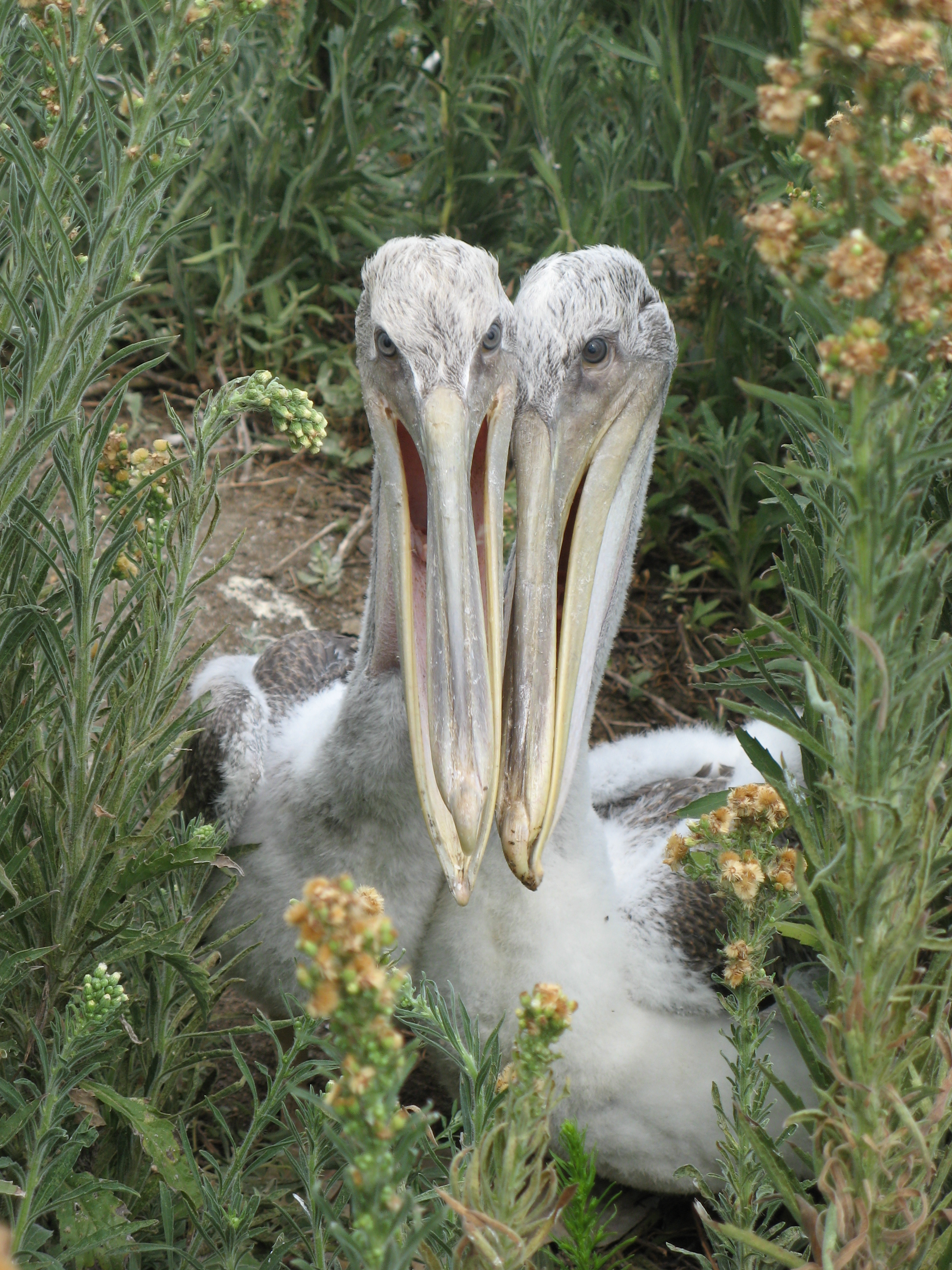 August 15, 2010 - Gaillard Island, Alabama. Two juvenile pelicans with natal down sit on Gaillard Island in Mobile Bay, Alabama. Credit: Catherine J. Hibbard/USFWS